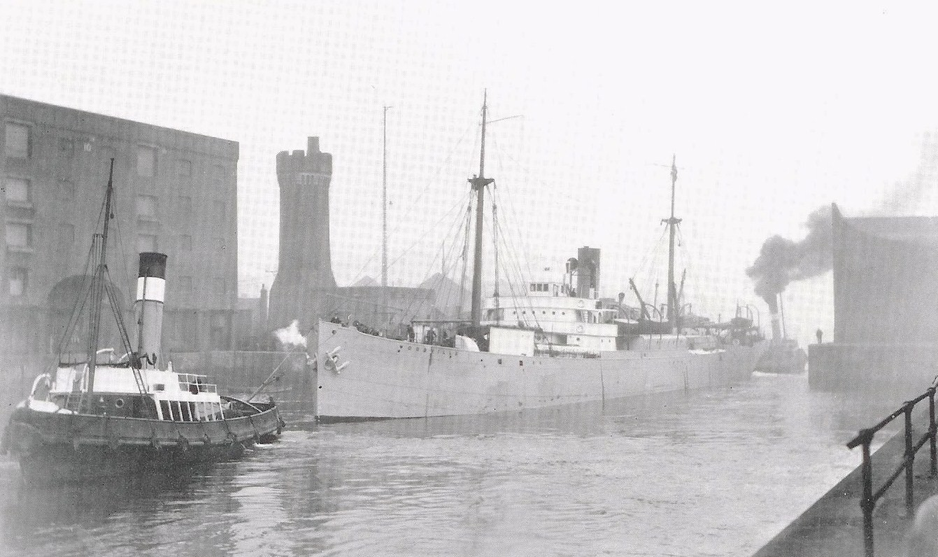 3,000-ton SS Woodville seen here in Liverpool